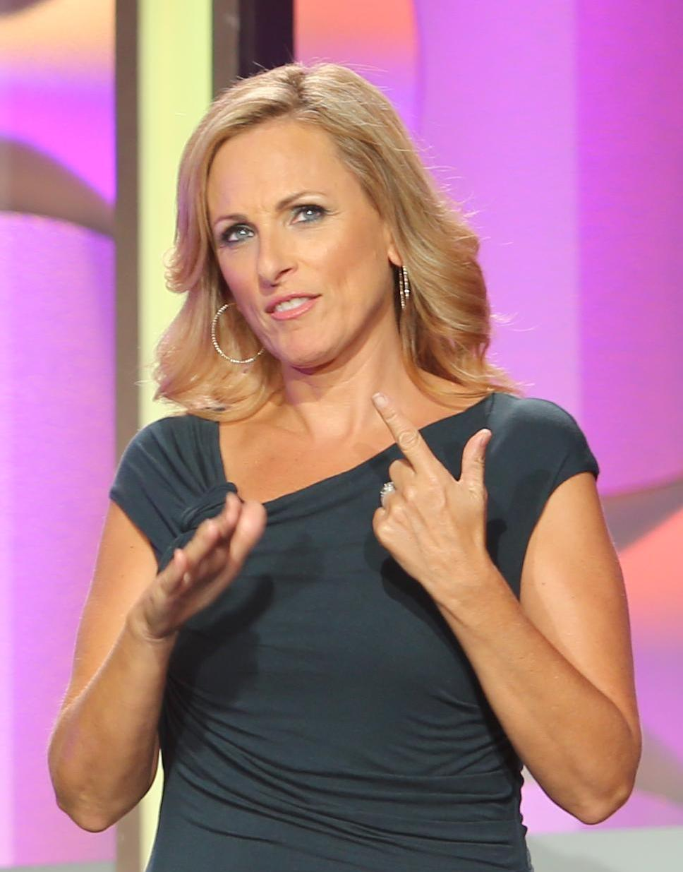 Marlee Matlin as Celebrity Presenter at 2014 AHA Hero Dog Awards on September 27, 2014